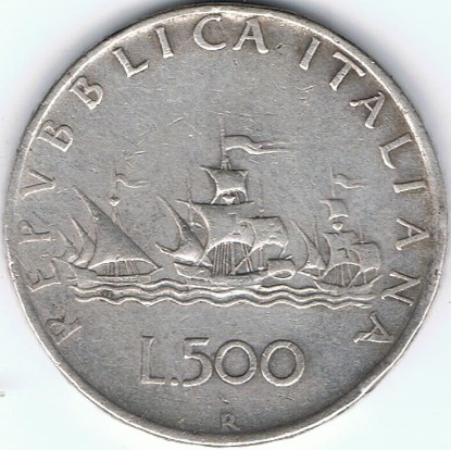 500 Lire 1959. The year of mintage is engraved on the edge of the coin.